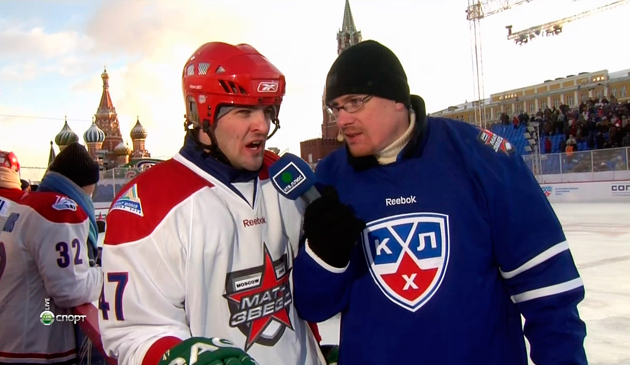 Radulov at KHL All-Star Game Red Square, Moscow, Russia January 10, 2009